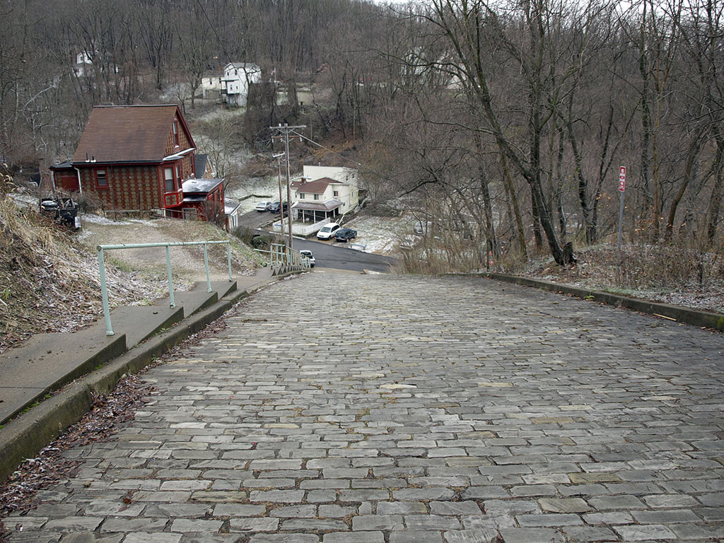 Canton Avenue, in Pittsburgh, Pennsylvania's Beechview neighborhood, is the steepest public street in the United States. This is the view from the top of the hill. It boasts an average grade of 37%, an incline of 20 degrees.